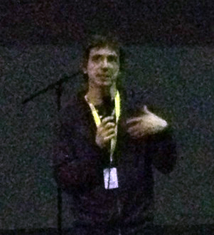 Philippe Falardeau doing a Q&A at the 41st International Film Festival Rotterdam